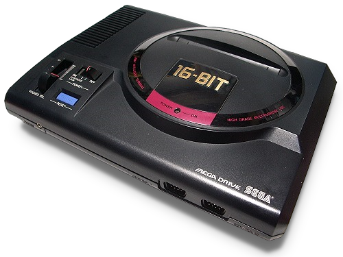 Original Japanese Mega Drive